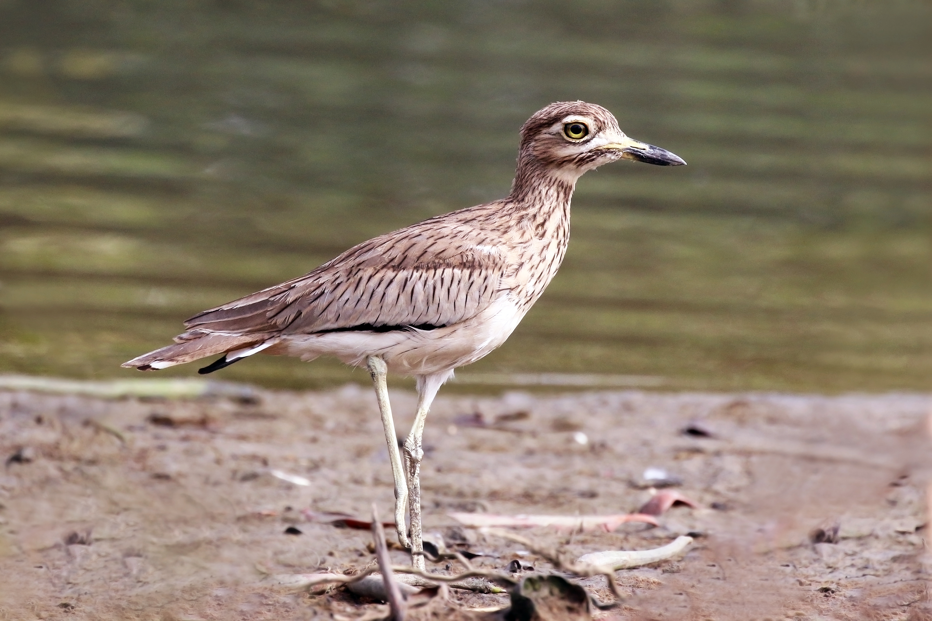 Senegal thick-knee (Burhinus senegalensis), Gambia